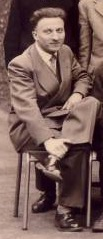 Jean Bouvier (1920-1987), historian, professor at the Lycée Carnot, Paris, 1957-1958.